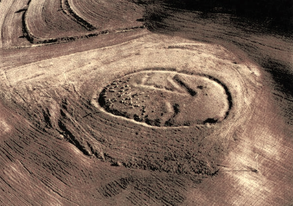 Geoglyph FYROM